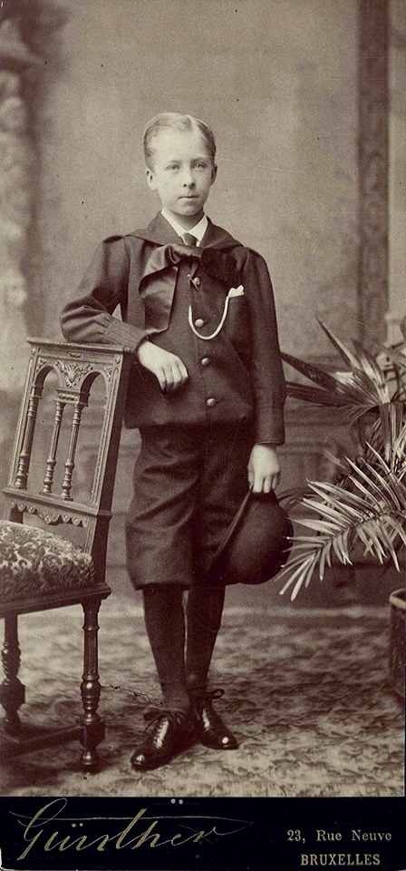 King Albert I of Belgium as a child